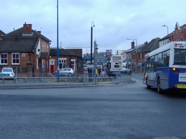 Towards Blackheath High Street